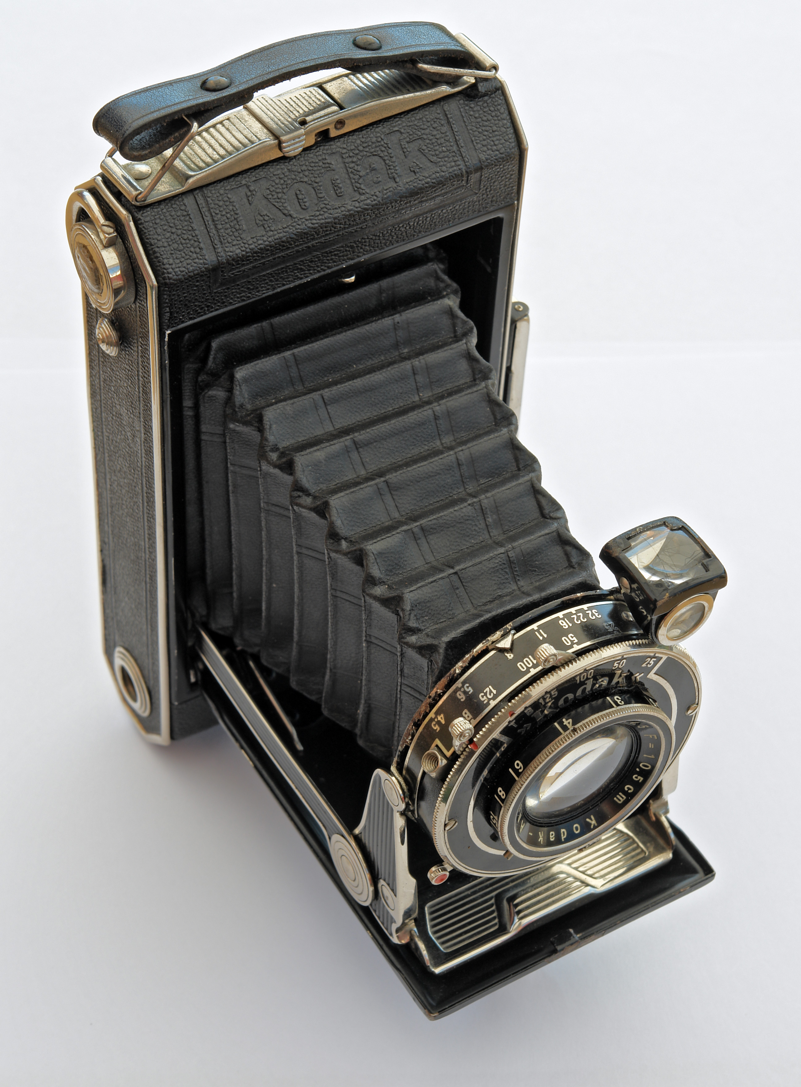 Kodak Vollenda 620 camera, built in the 1930s.